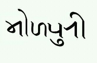 The word Bhojpuri written in Kaithi script.